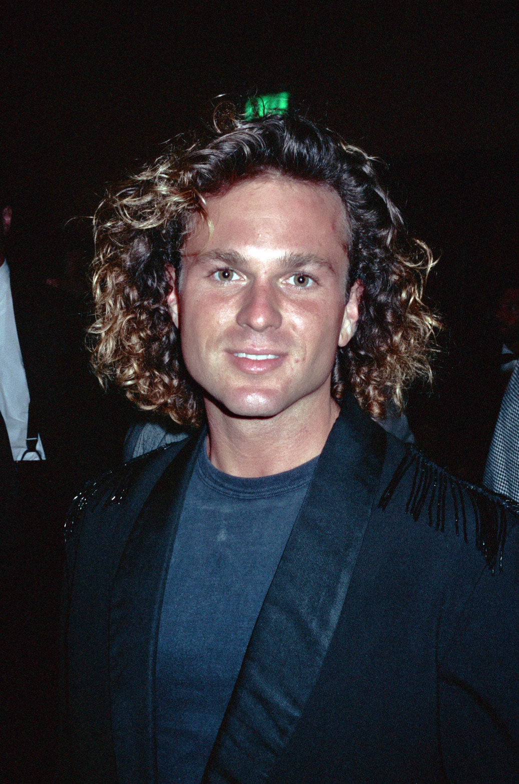 AIDS Project Los Angeles (APLA) benefit, Los Angeles- Sept. 1990- Permission granted to copy, publish or post but please credit "photo by Alan Light" if you can